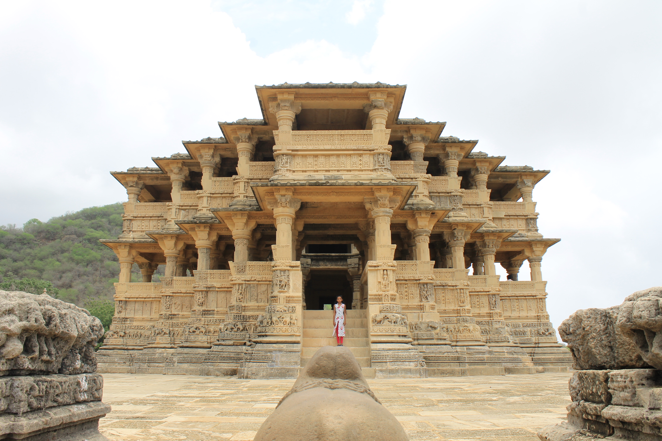 Navlakha Temple Front view of navlakha temple